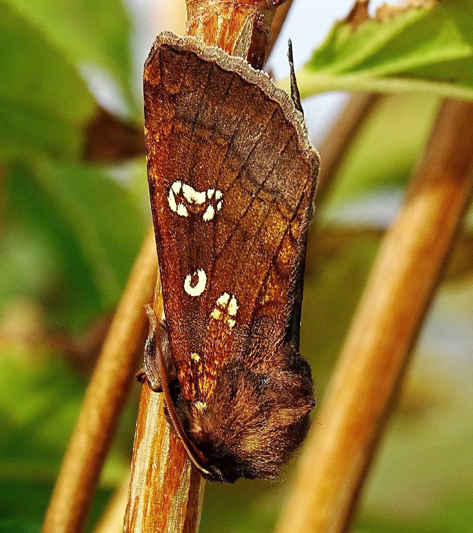 Moth Gortyna borelii photographed near Vatin, Vršac municipality in Vojvodina's Banat region. Srpski (latinica): Leptir Gortyna borelii